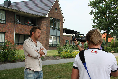 Winston Gerschtanowitz during the production of a reality show, 2010.